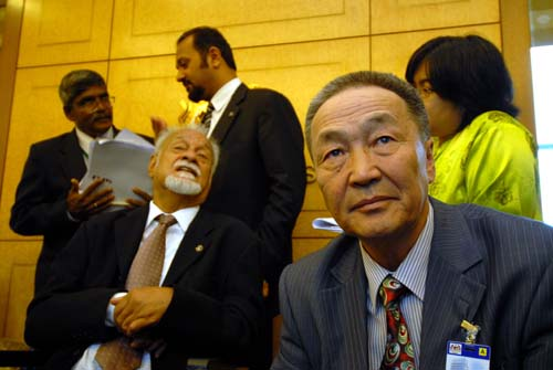 Gobind Singh Deo, Karpal Singh and Shaariibuu Setev